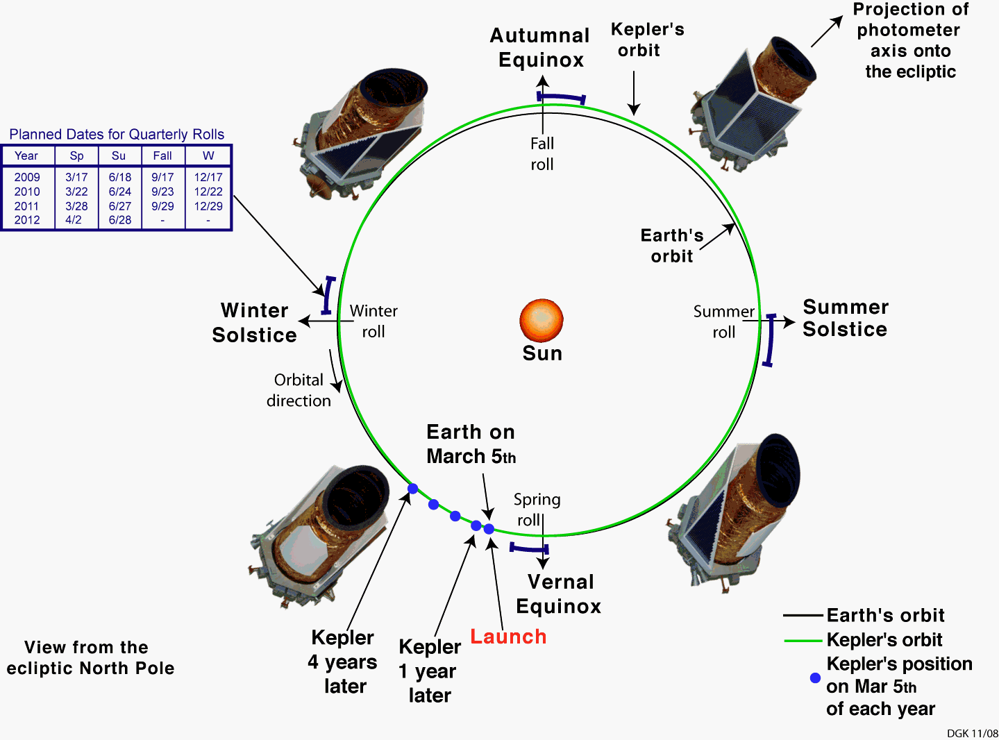 Kepler space telescope orbit, including vehicular quarter turns at solstices and equinoxes.